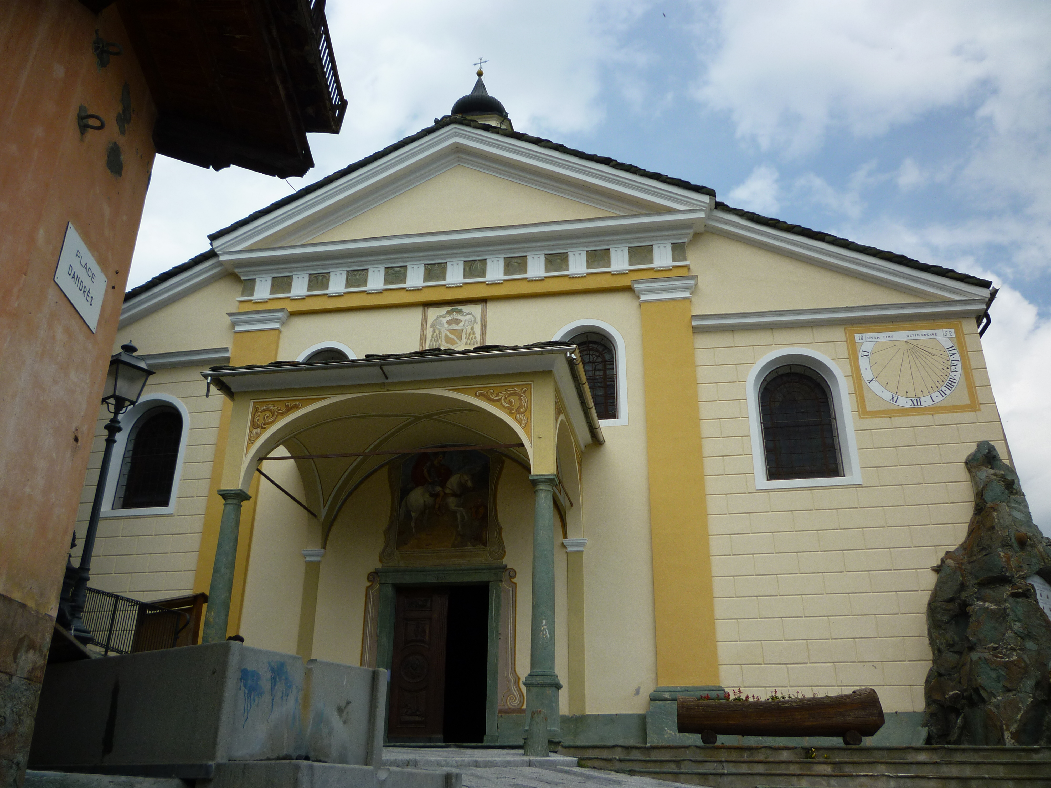 Church in Antagnod (Ayas Valley, Italy)